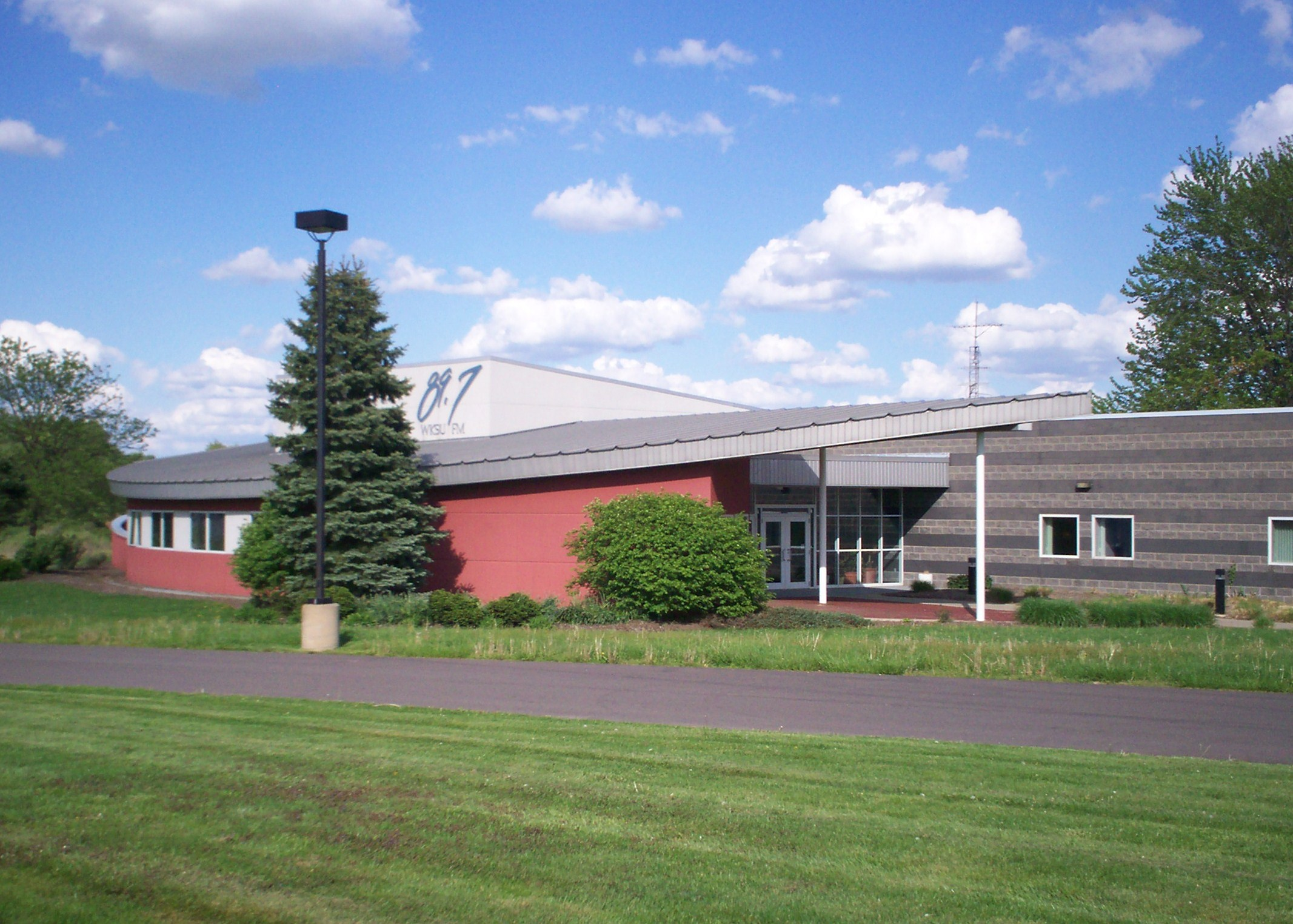 Studios of NPR affiliate WKSU on the campus of Kent State University in Kent, Ohio.